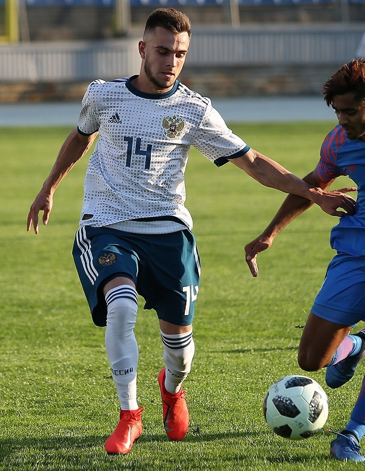 Leonid Gerchikov with Russia U18 in a 2019 Granatkin Memorial game against India U18.